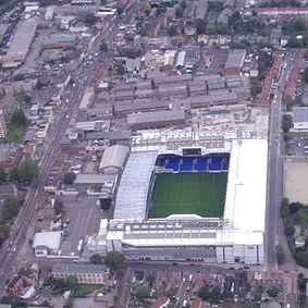 Aerial view Tottenham Hotspur Football Club - image trimmed and adjusted